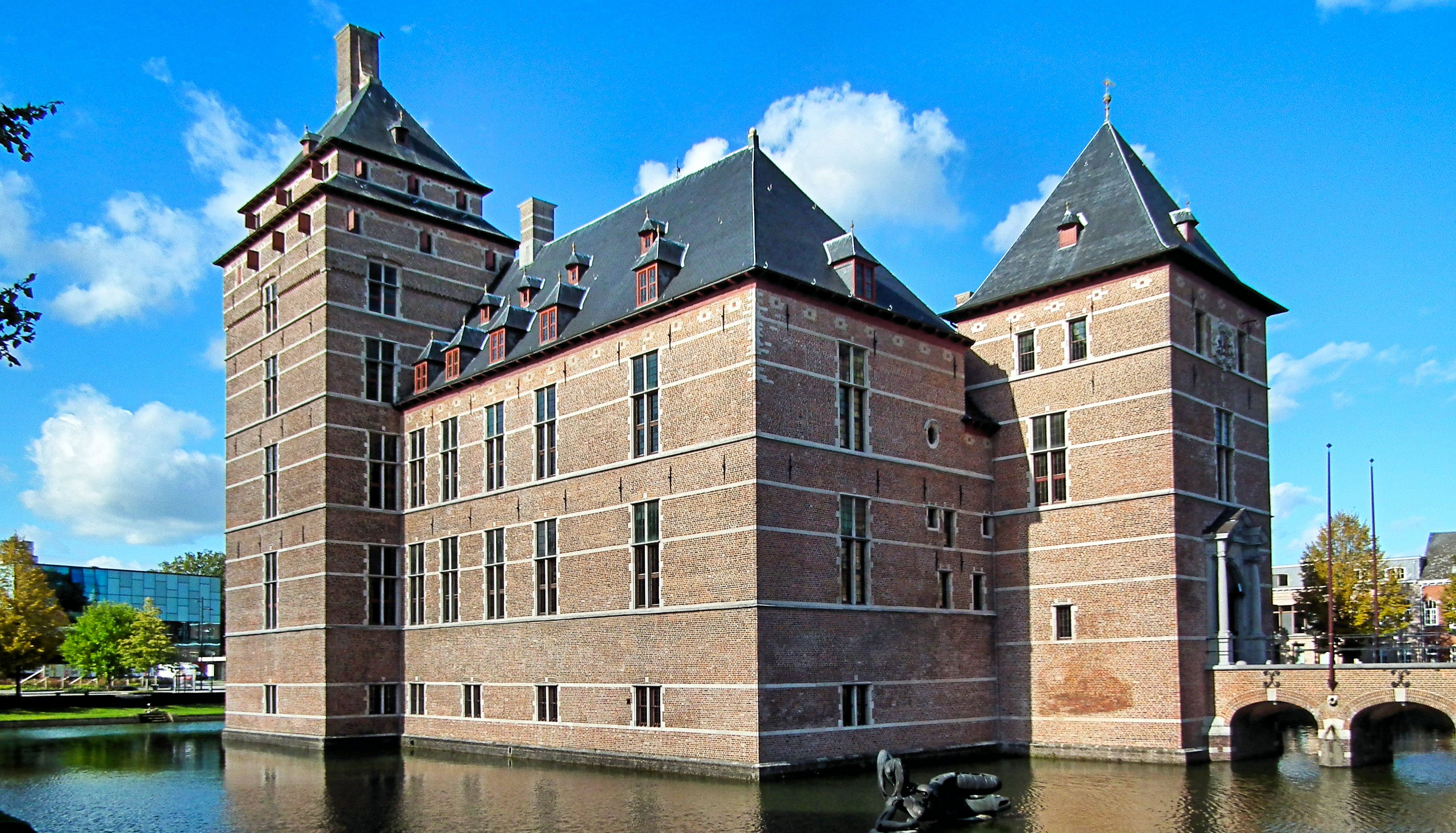 Belgium - Turnhout. Former Castle - present Cout of Justice